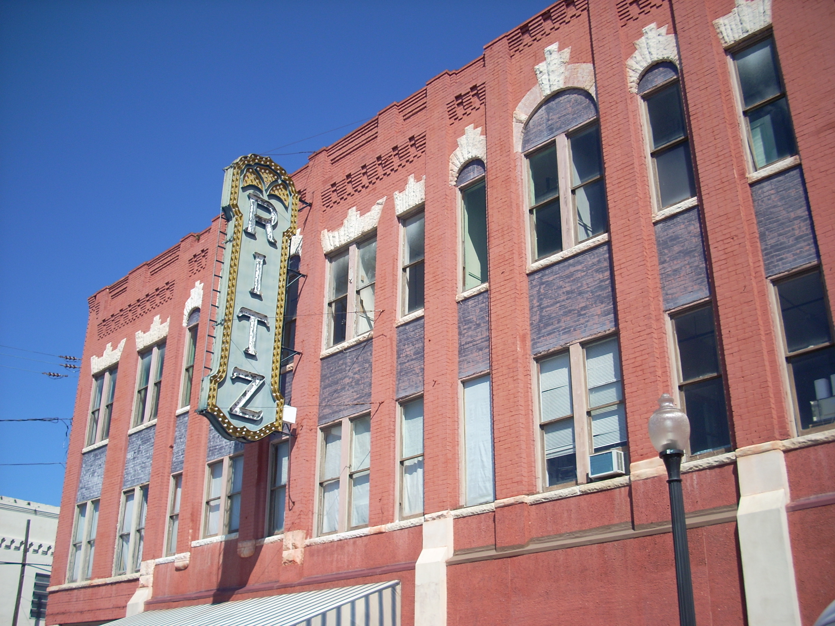 The famous Ritz Theatre in downtown Brunswick.